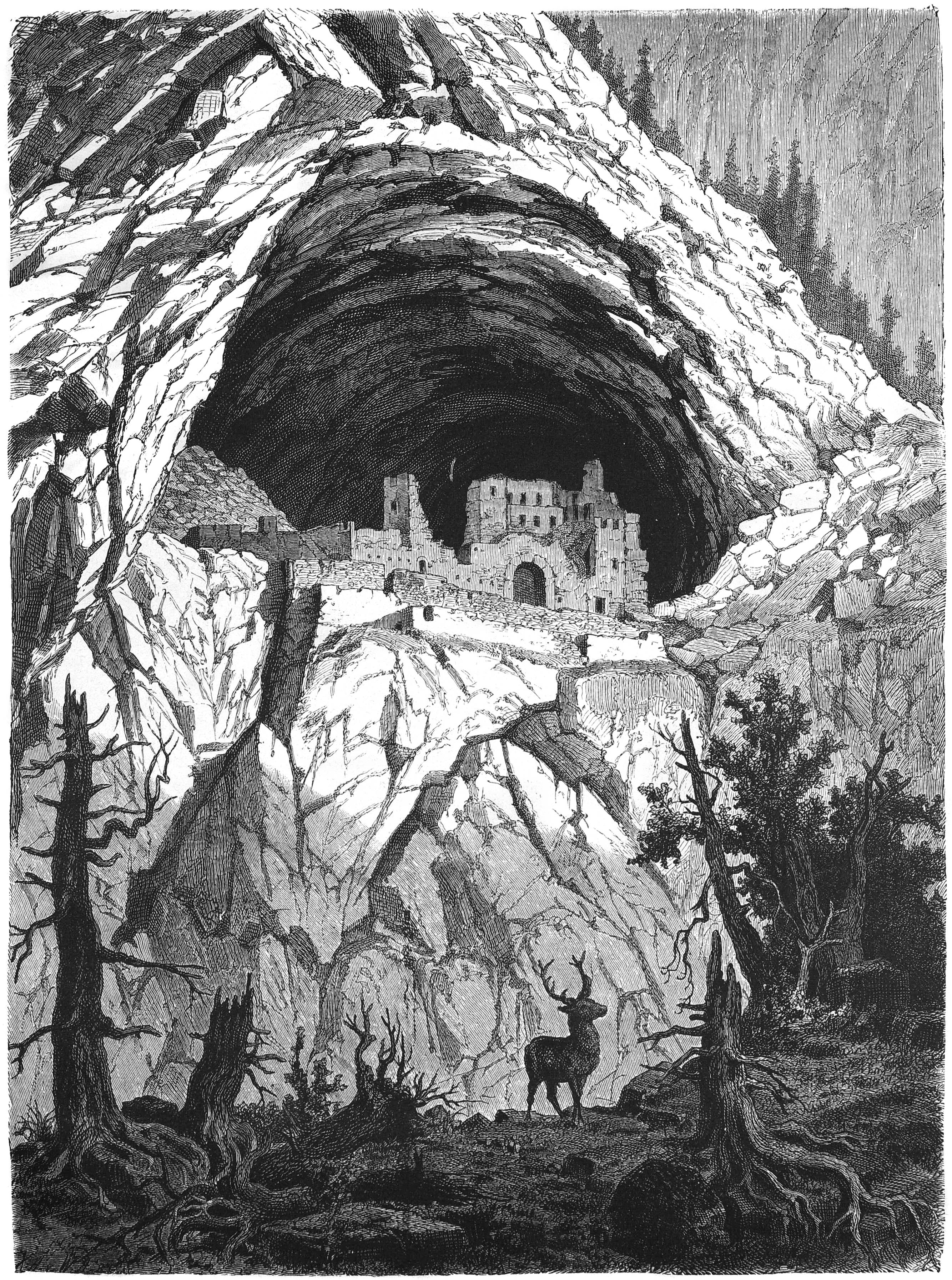 caption: "Das Höhlenschloß Puxer Luegg in Steiermark. Nach einer Farbenskizze von Robert Zander in Wien."